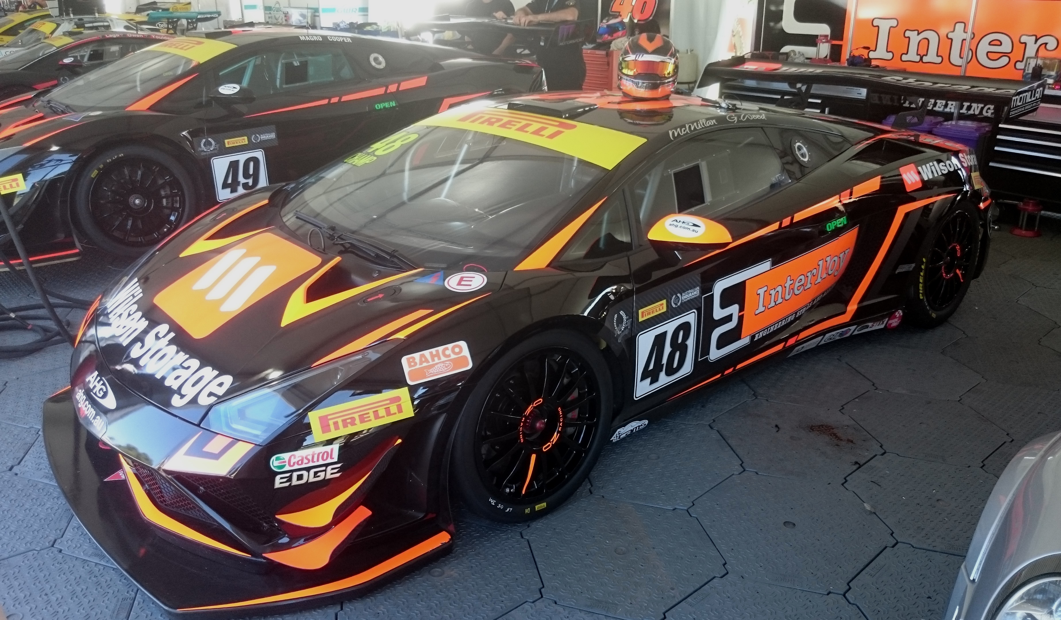 The Lamborghini Gallardo R-EX of Justin McMillan & Glen Wood at the Adelaide round of the 2016 Australian GT Championship.